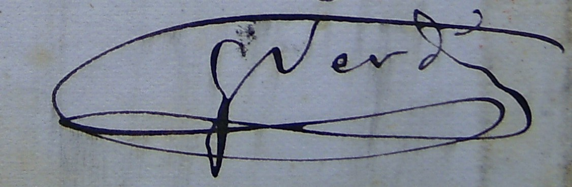 Giuseppe Verdi signature